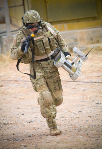 future force warrior running with sugv